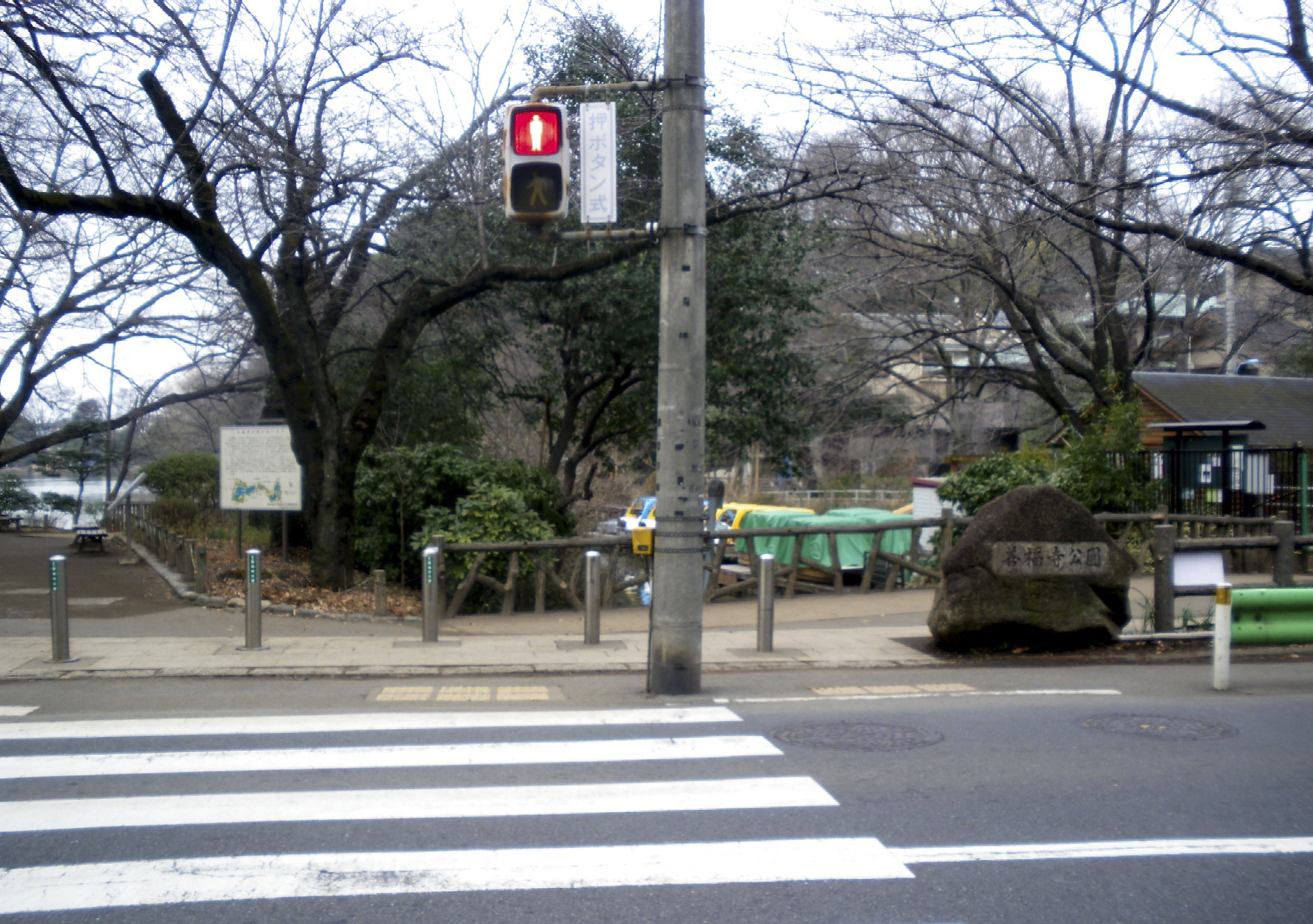 A photo of an entrance of Zenpukuji Park,Zenpukuji,Suginami-ku,Tokyo,Japan.